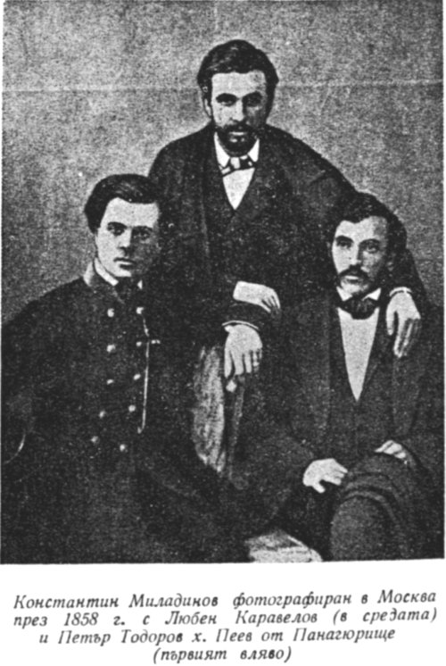 (left to right) Petar Hajipeev, Lyuben Karavelov (1834-1879) and Konstantin Miladinov (c. 1830-1862)